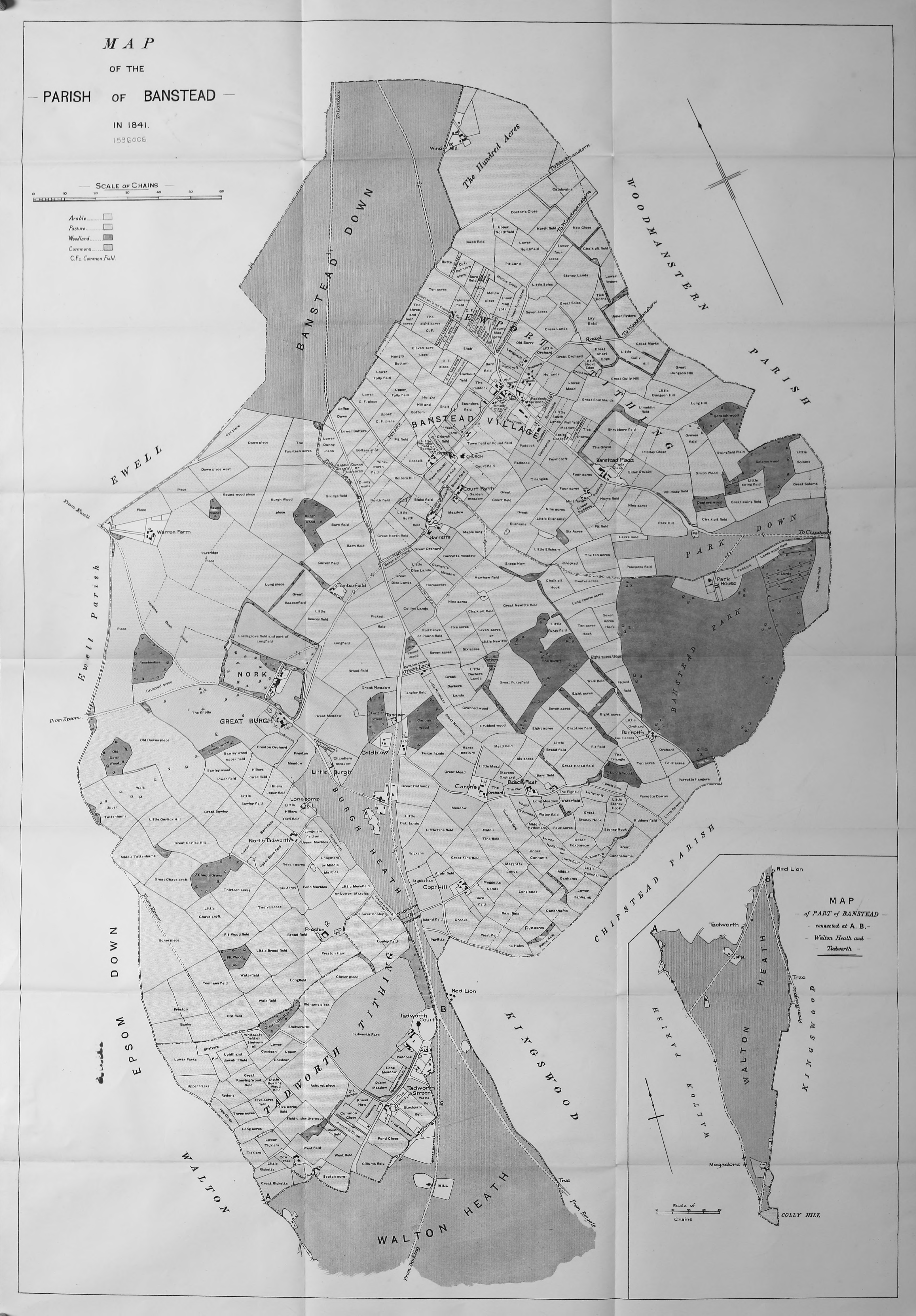 Map of Banstead in 1841 from Lambert, H.C.M. 1912 History of Banstead in Surrey; the book provides annotations for some of the place names, many of which have given rise to modern street names. Two scans had to be stitched together, and the original was not quite flat, so there is slight distortion.